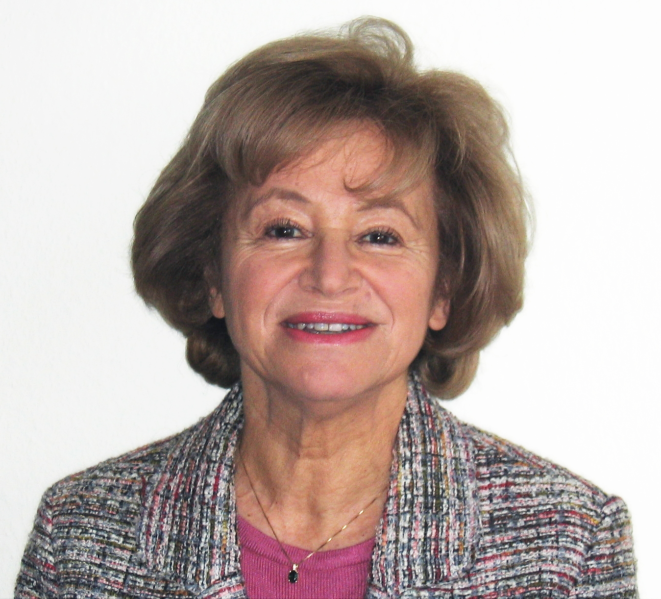 Dr. Catherine Cesarsky, ESO Director General from 1999 till 2007.